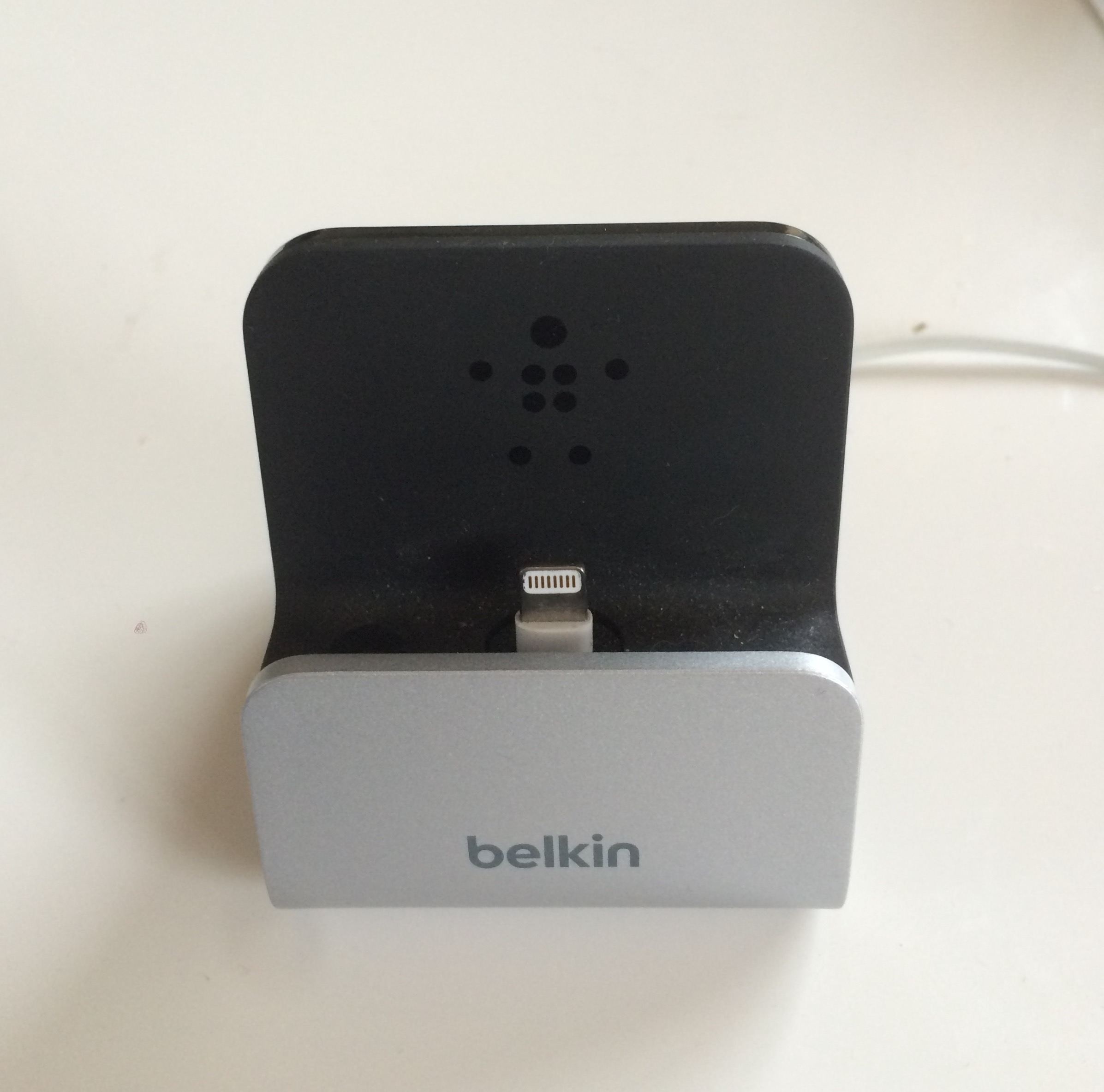 Belkin iPhone Ladestation